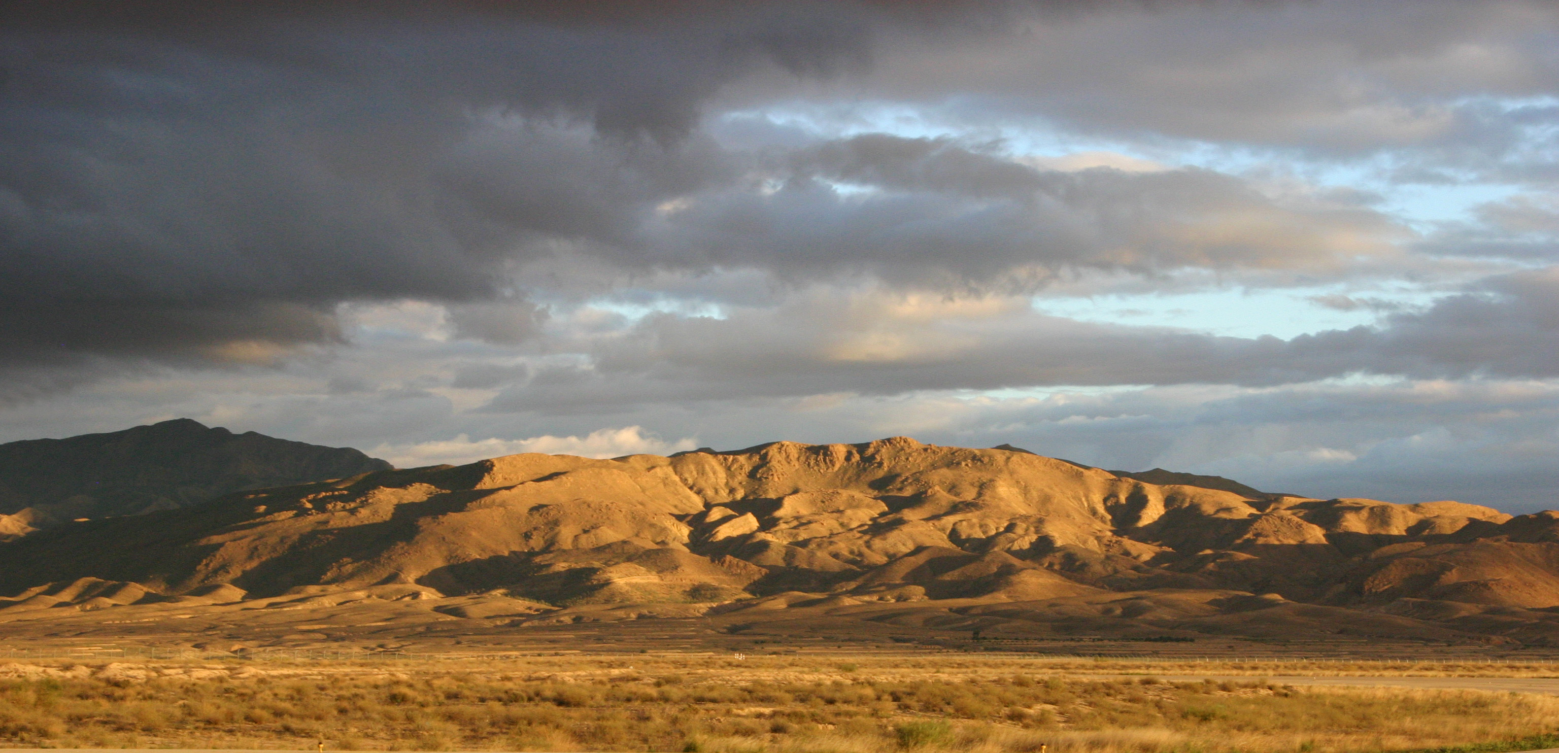 Landscape in Tozeur–Nefta International Airport (Tunisia)